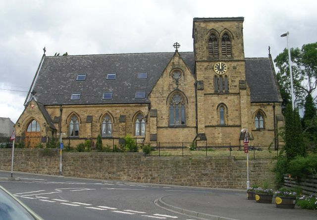 All Saints Church - Church Street, Woodlesford